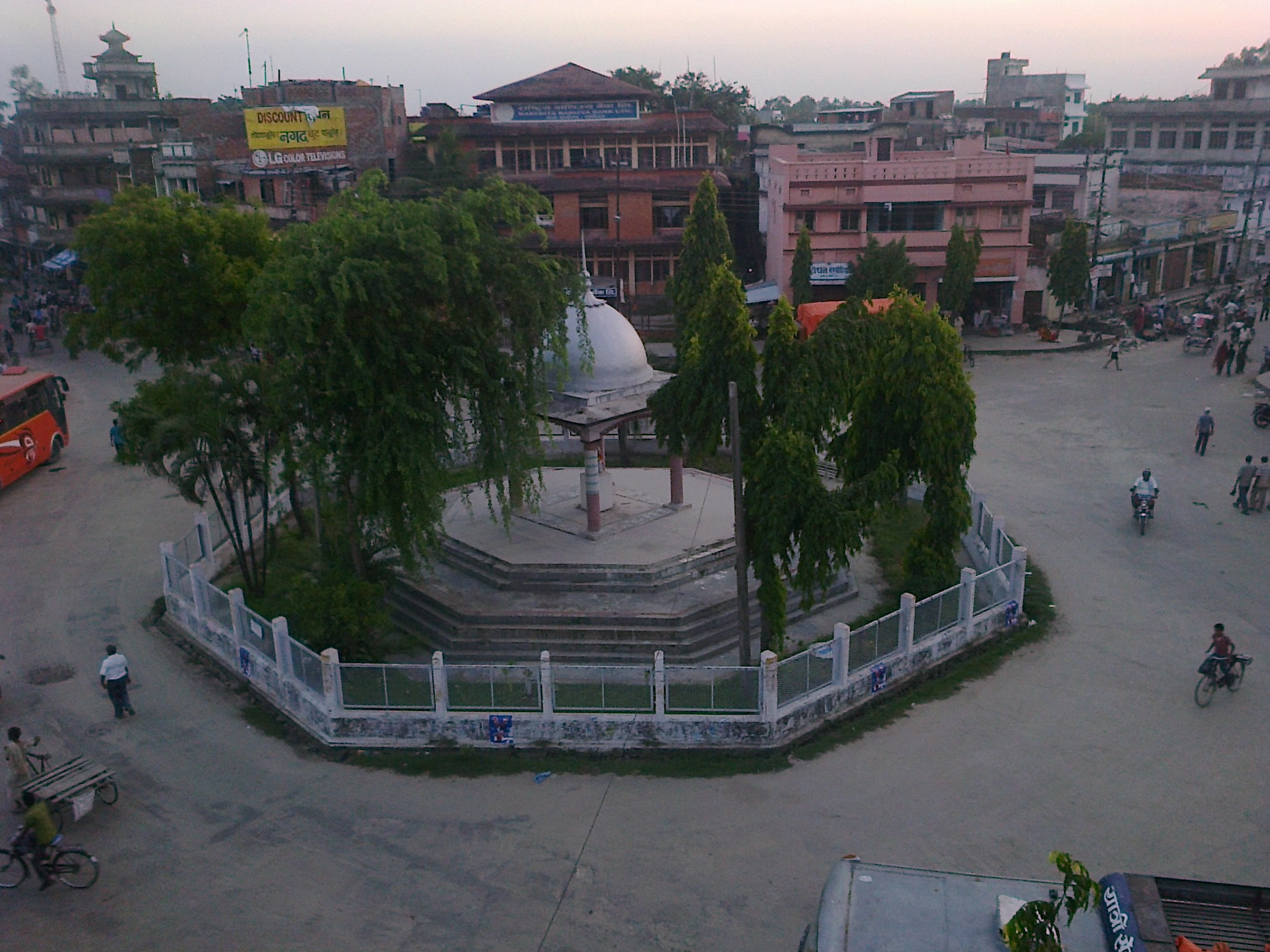 Tribhuvan Chowk